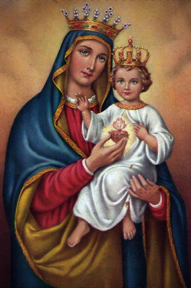 Our Lady of the Sacred Heart in 1910